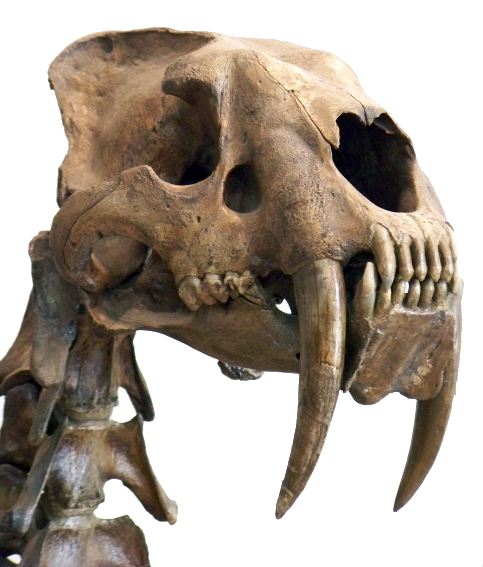 Close up view of a saber tooth cat head on display at the American Natural History Museum, New York.